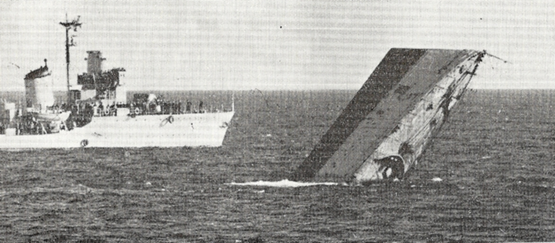 Swedish destroyer HMS Göteborg sinking after being used for target practice.